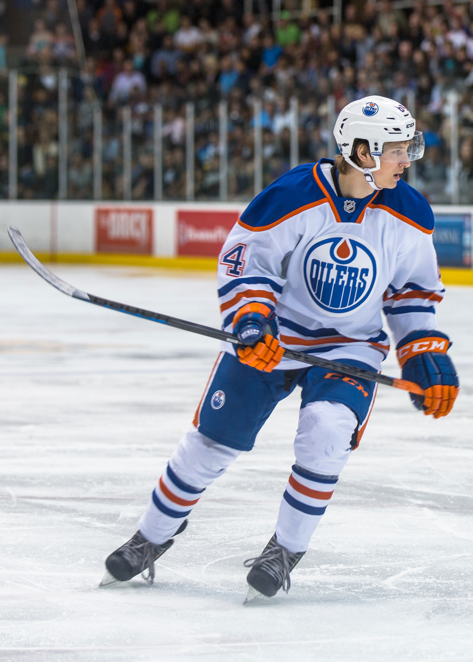 Vladimir Tkachev participating in the 2014 Edmonton Oilers prospects camp.